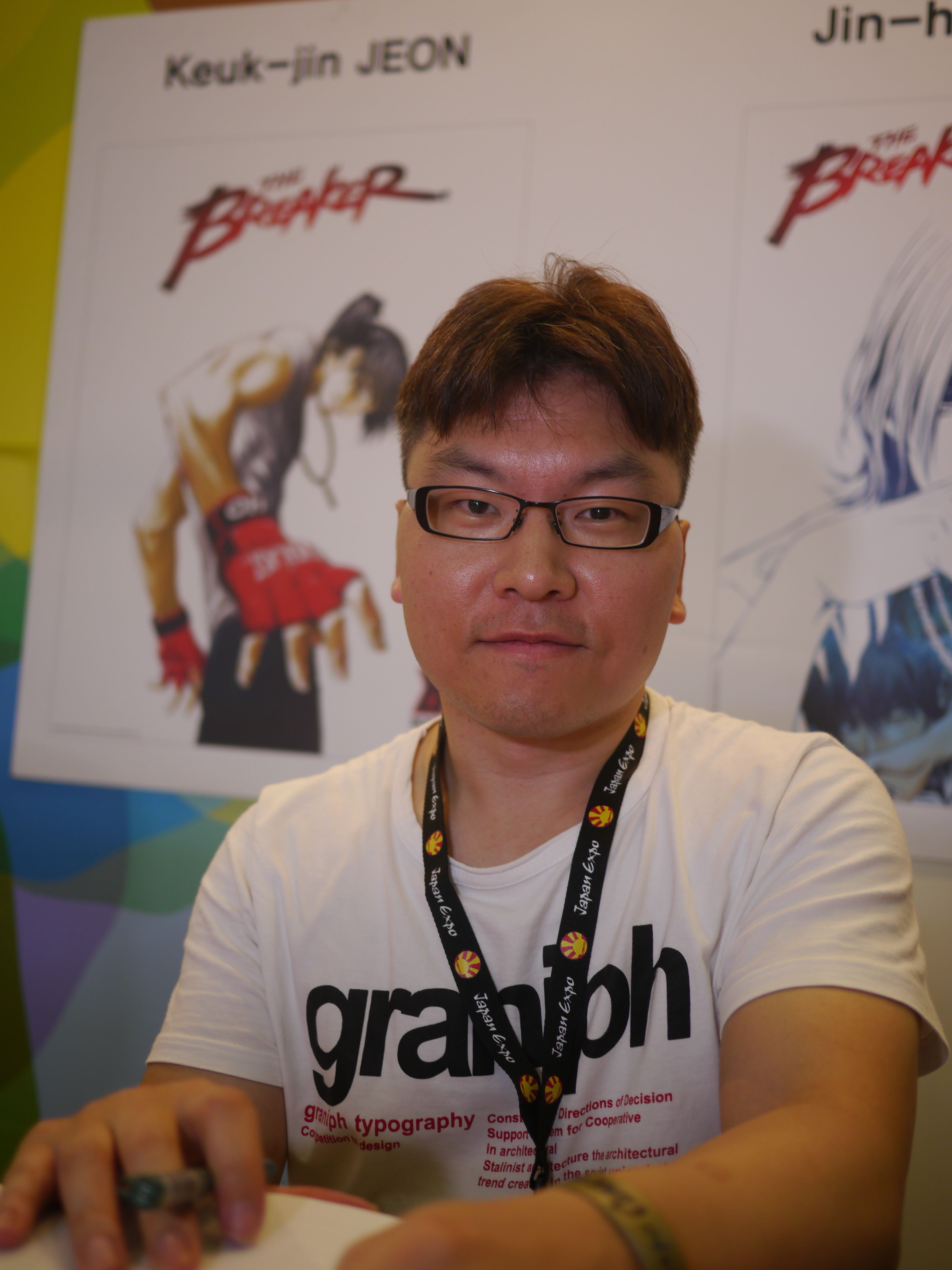 Japan Expo Festival, 12th impact